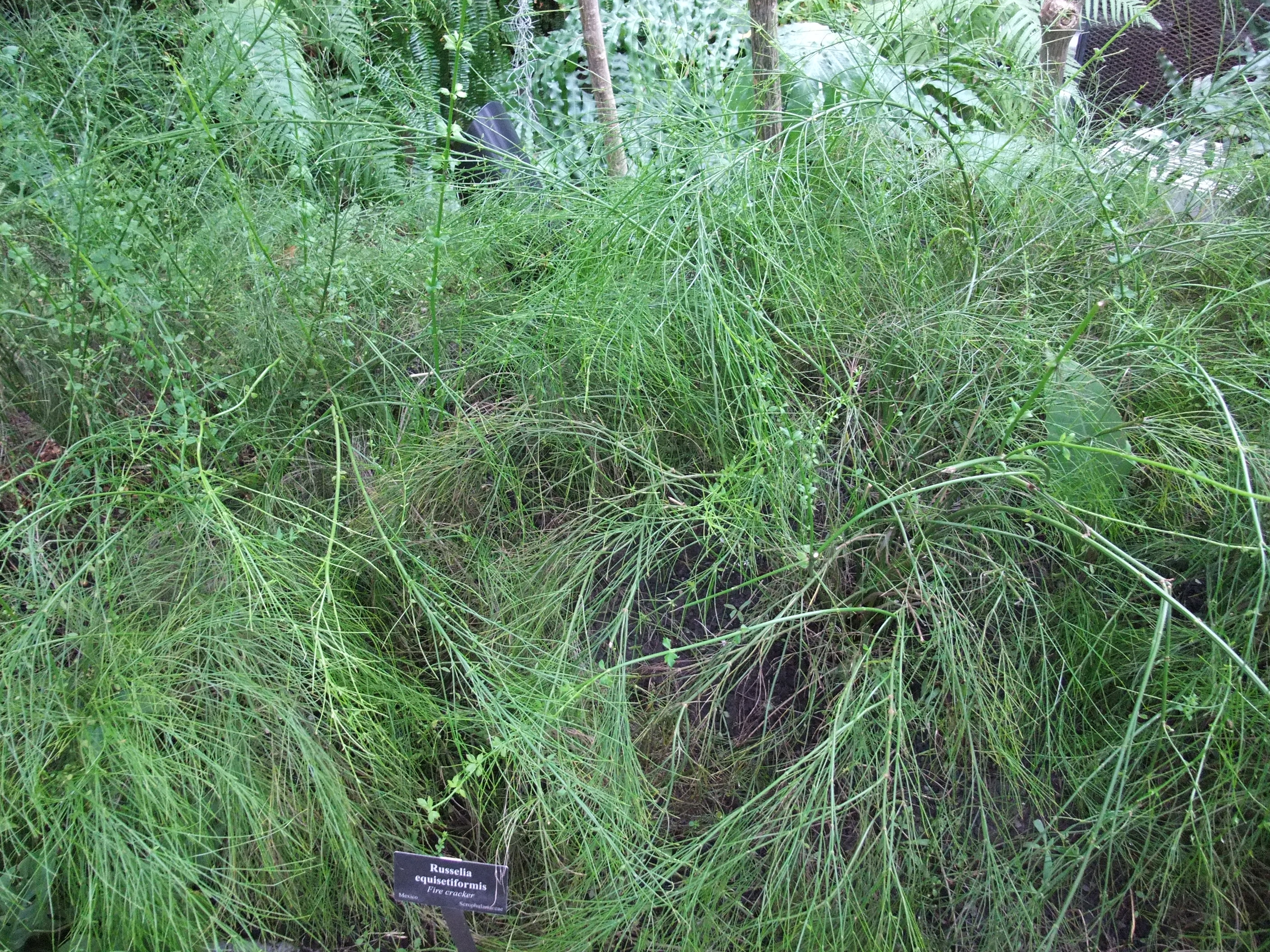 A photograph of Russelia equisetiformis.